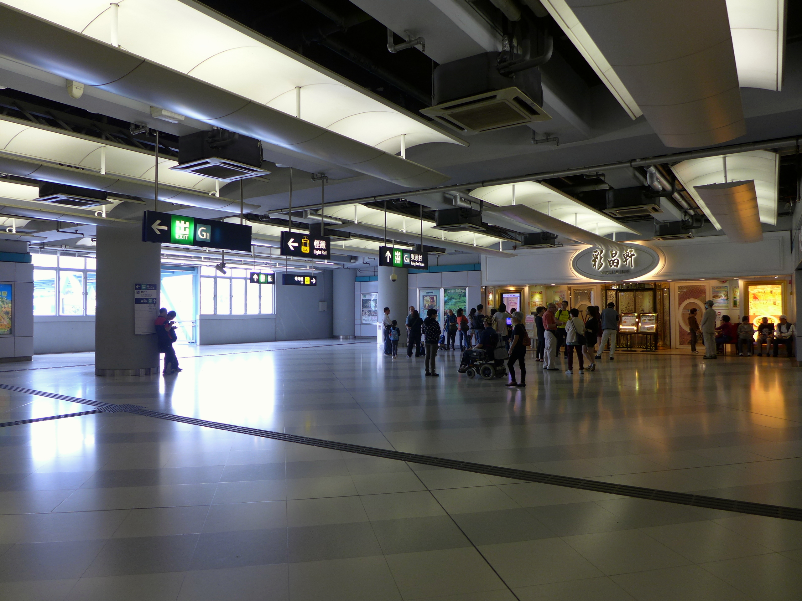 Yuen Long Station Exit G & Restaurant